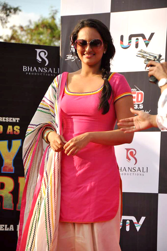 Sonakshi Sinha,Akshay Kumar,Prabhu Dheva From The Promotional rickshaw race for 'Rowdy Rathore'